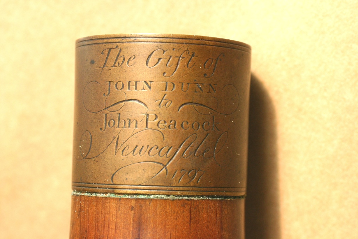 A photograph of the ferrule on the drone-stock of the Northumbrian smallpipes presented by John Dunn to John Peacock, engraved by Thomas Bewick.